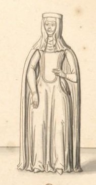 Isabeau of Bavaria